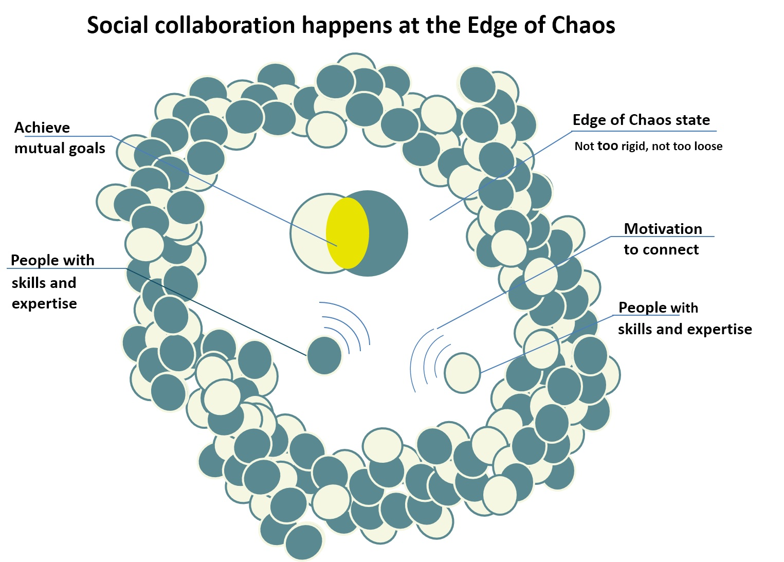 For Social collaboration to thrive and to be successful, it is essential to achieve the critical balance where people group to collaborate and brainstorm for problem solving and yet continue with their solitary behavior for focused work. This alternating behavior should happen with ease. The existing structure and environment should not be too rigid to prevent people from collaborating nor too loose to create chaos...Ramkumar Yaragarla